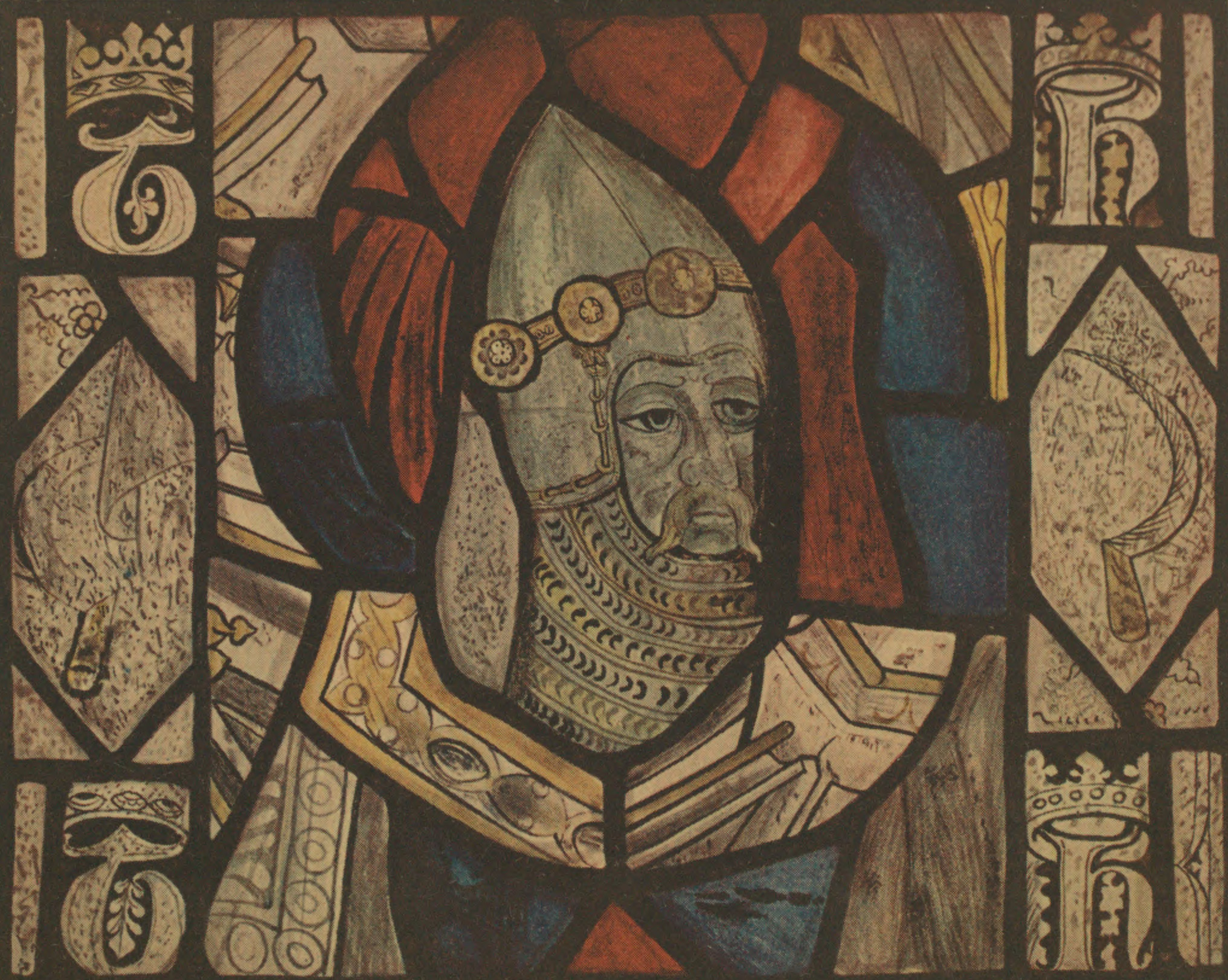 Stained glass window of Sir Thomas Hungerford in Farley Church